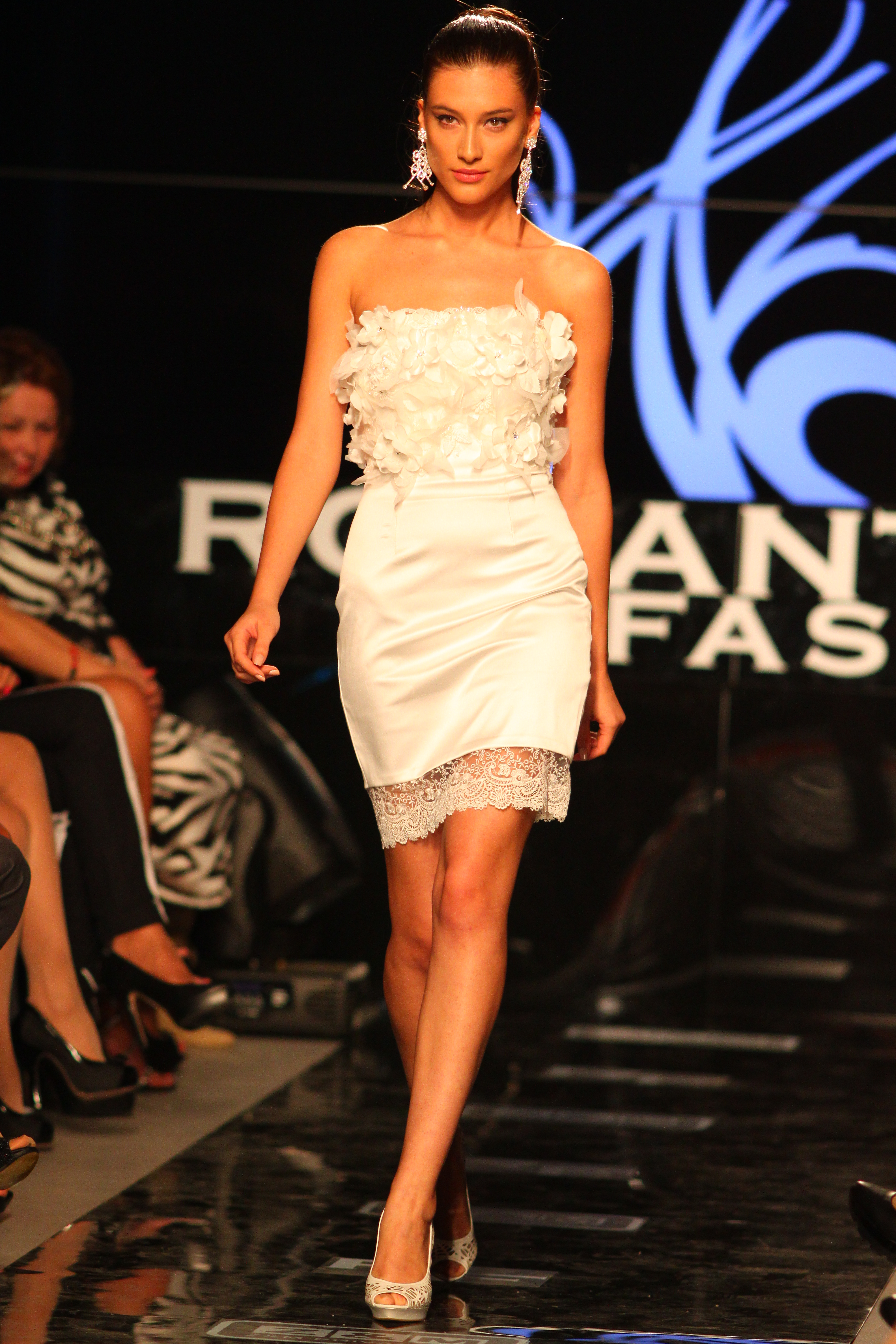 Fashion model on the runaway, Romantika Fashion, Sofia, Bulgaria